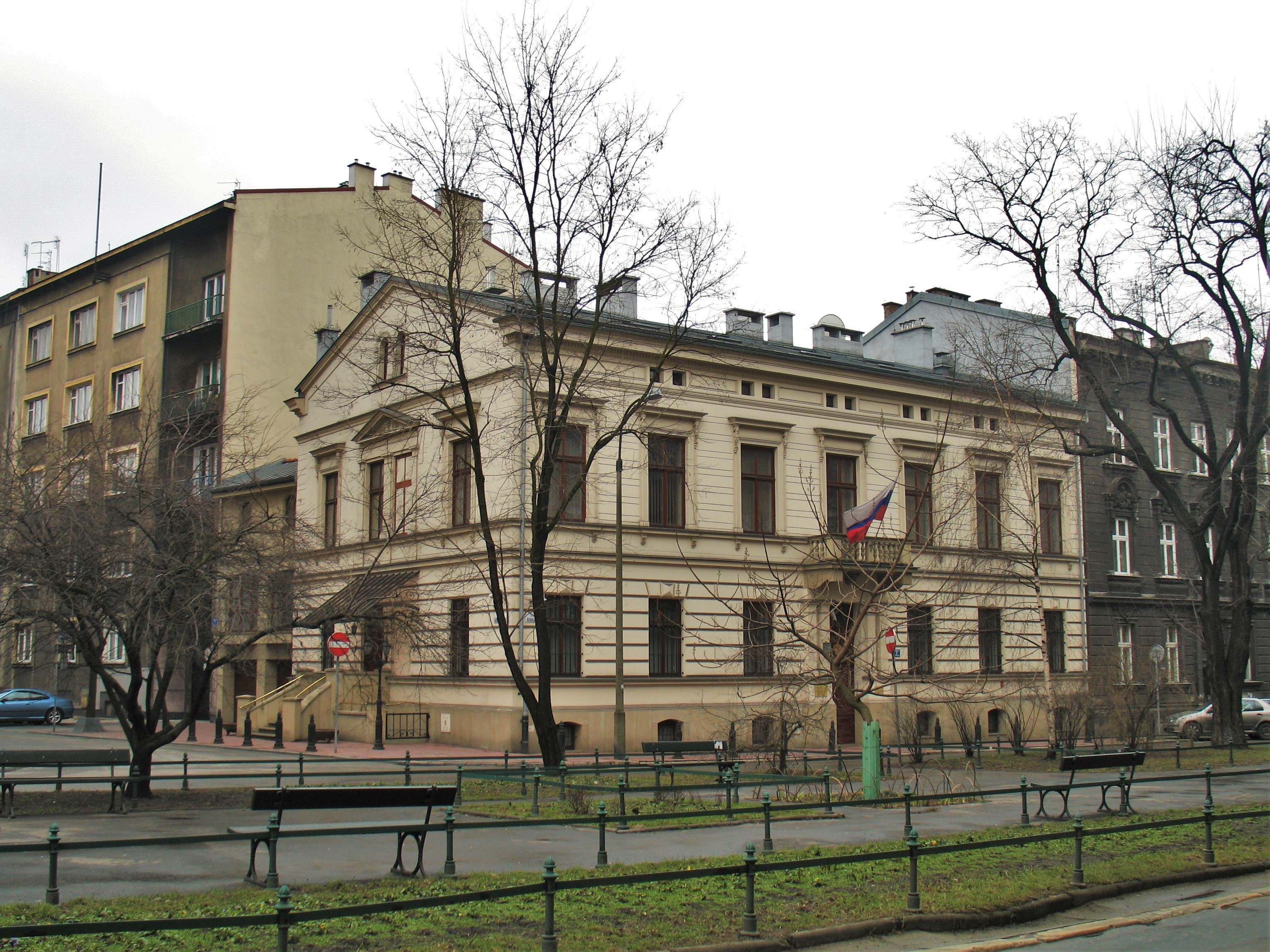 Russian consulate in Kraków, Poland